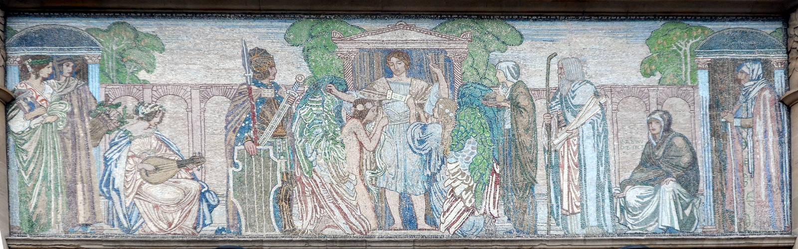 "Humanity in the House of Circumstance". Mosaic, Horniman Museum, London.